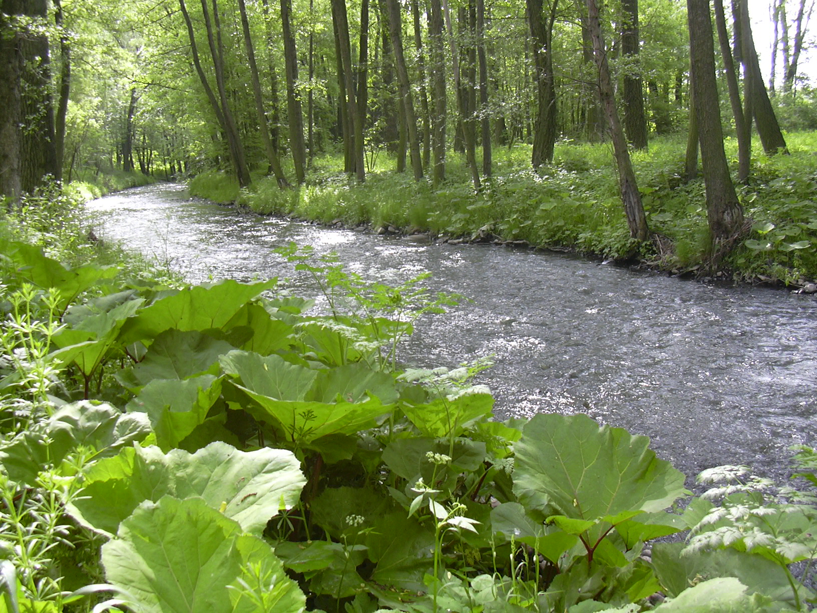 River Liboc (tributary of Ohře) between Pětipsy and Libědice